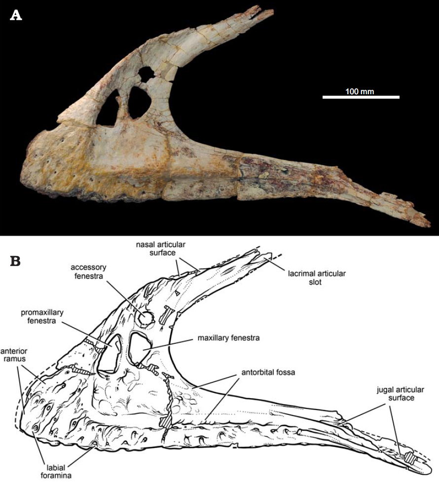 Carcharodontosaurid theropod Eocarcharia dinops gen. et sp. nov. MNN GAD2 from the Lower Cretaceous Elrhaz Formation of Niger. Left maxilla in lateral view; photograph (A) and line drawing (B). Cross−hatching indicates broken bone; dashed lines indicate estimated edge; grey tone indicates matrix.